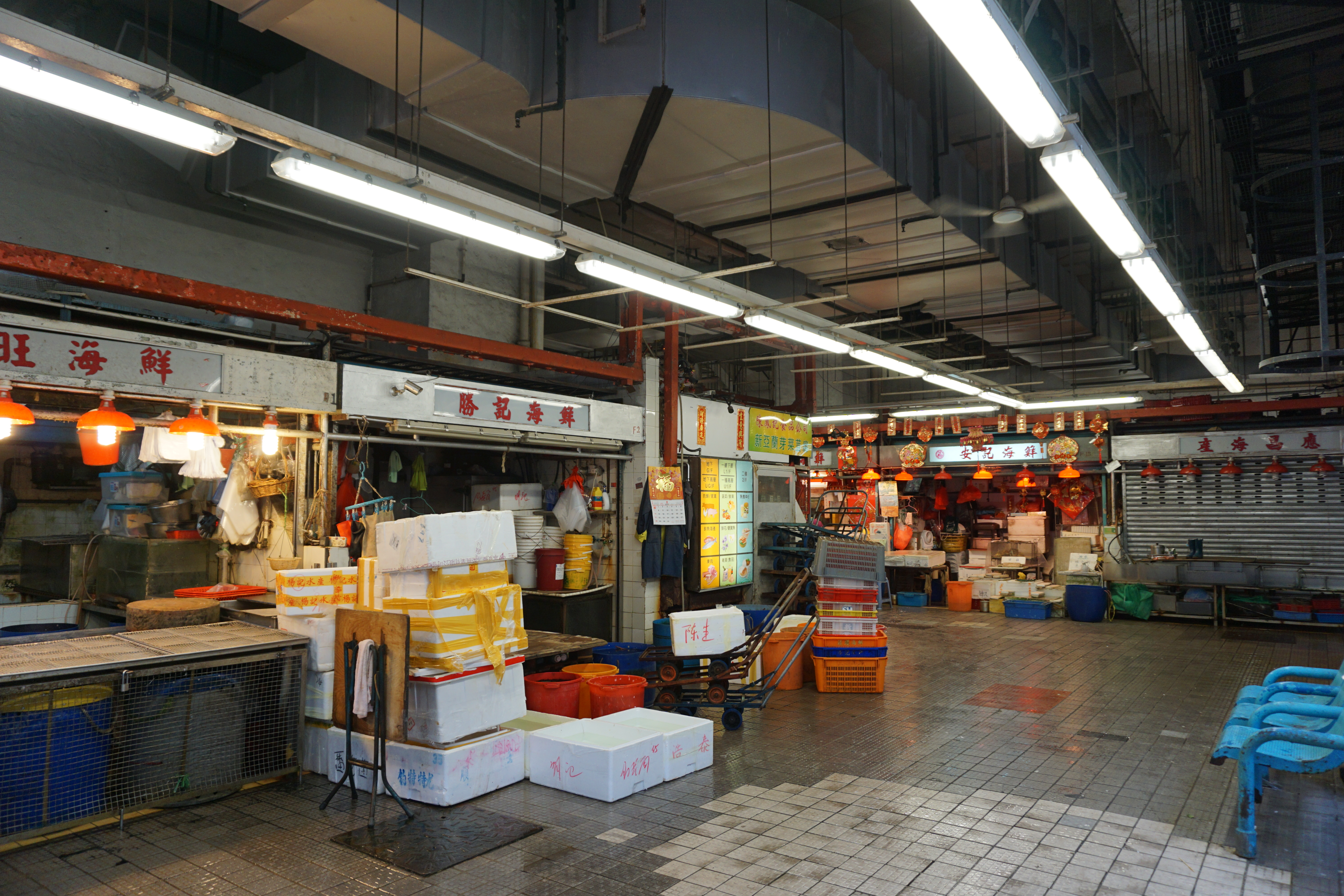 Kwun Chung Market in Jordan, Hong Kong.